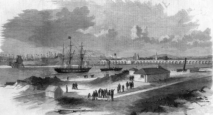 Opening of the Bute East Docks 1859